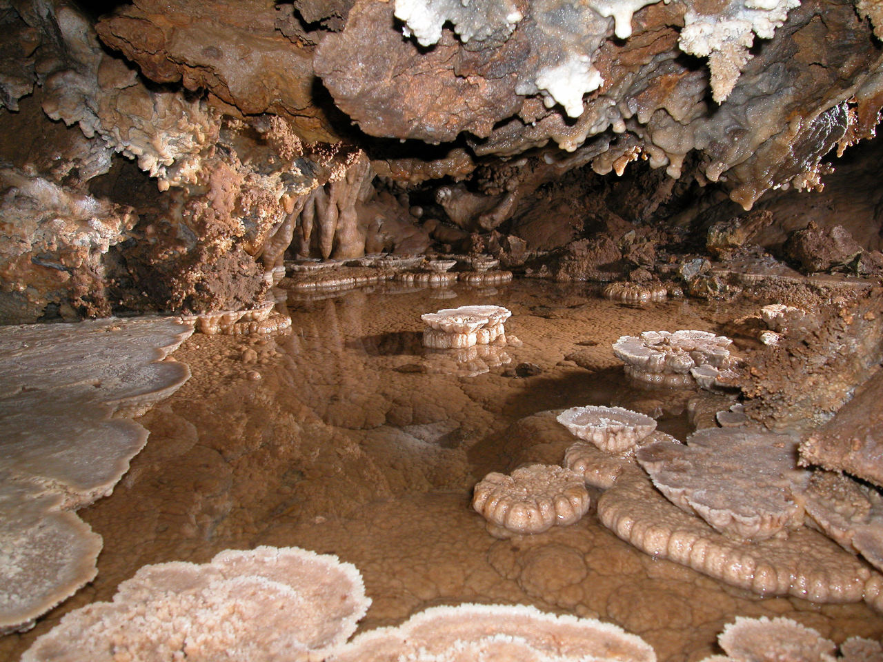 Shelfstone growing around the edges of a small pool. From Black Chasm Cavern, Volcano, California.